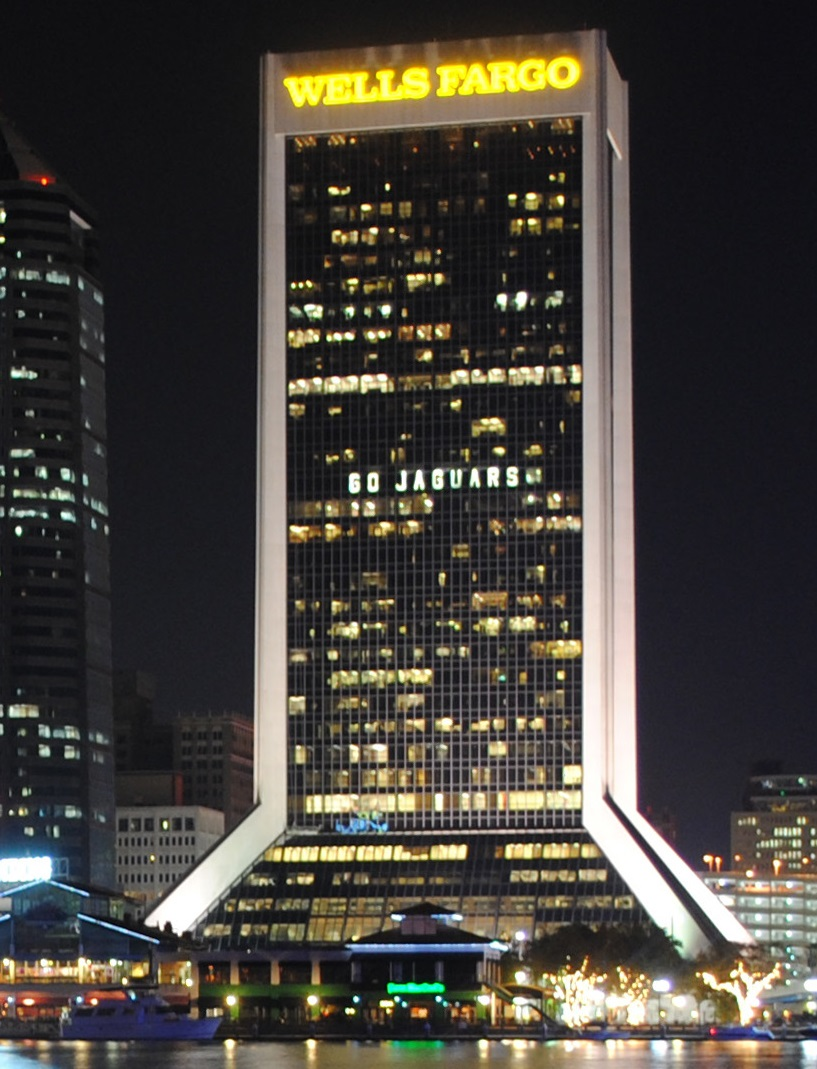 Wells Fargo building showing the Go Jaguars